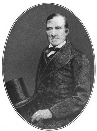 Image of Charles Lane, who ran the Alcott House in England before helping to found Fruitlands in Harvard, Massachusetts with Bronson Alcott. Sketched from a daguerreotype (no artist or date listed). From Bronson Alcott's Fruitlands by Clara Endicott Sears. Boston: Houghton Mifflin Company 1915. Page 42.